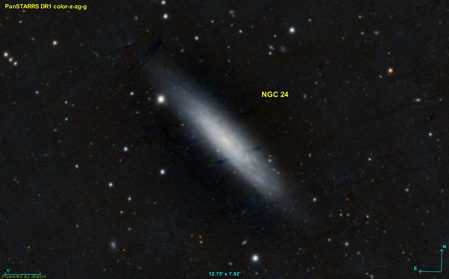 Image created using the Aladin Sky Atlas software from the Strasbourg Astronomical Data Center and Pan-STARRS (Panoramic Survey Telescope And Rapid Response System) public data.